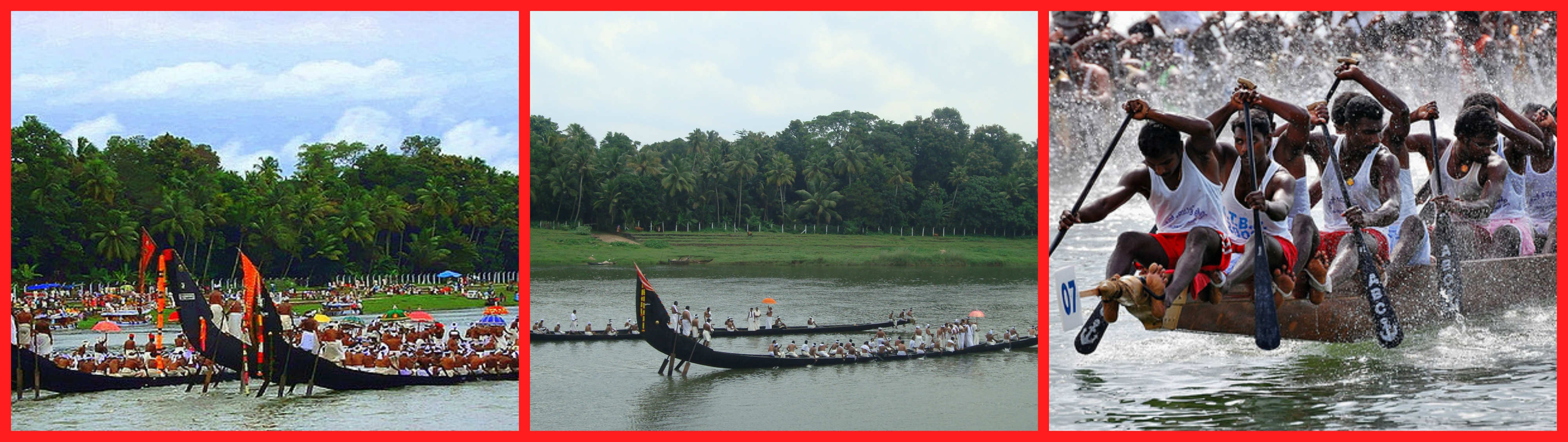 A derivative work on the following wikimedia images 800px-Kerala boatrace.jpg Aranmula valasadya.JPG Boat race chundan.jpg